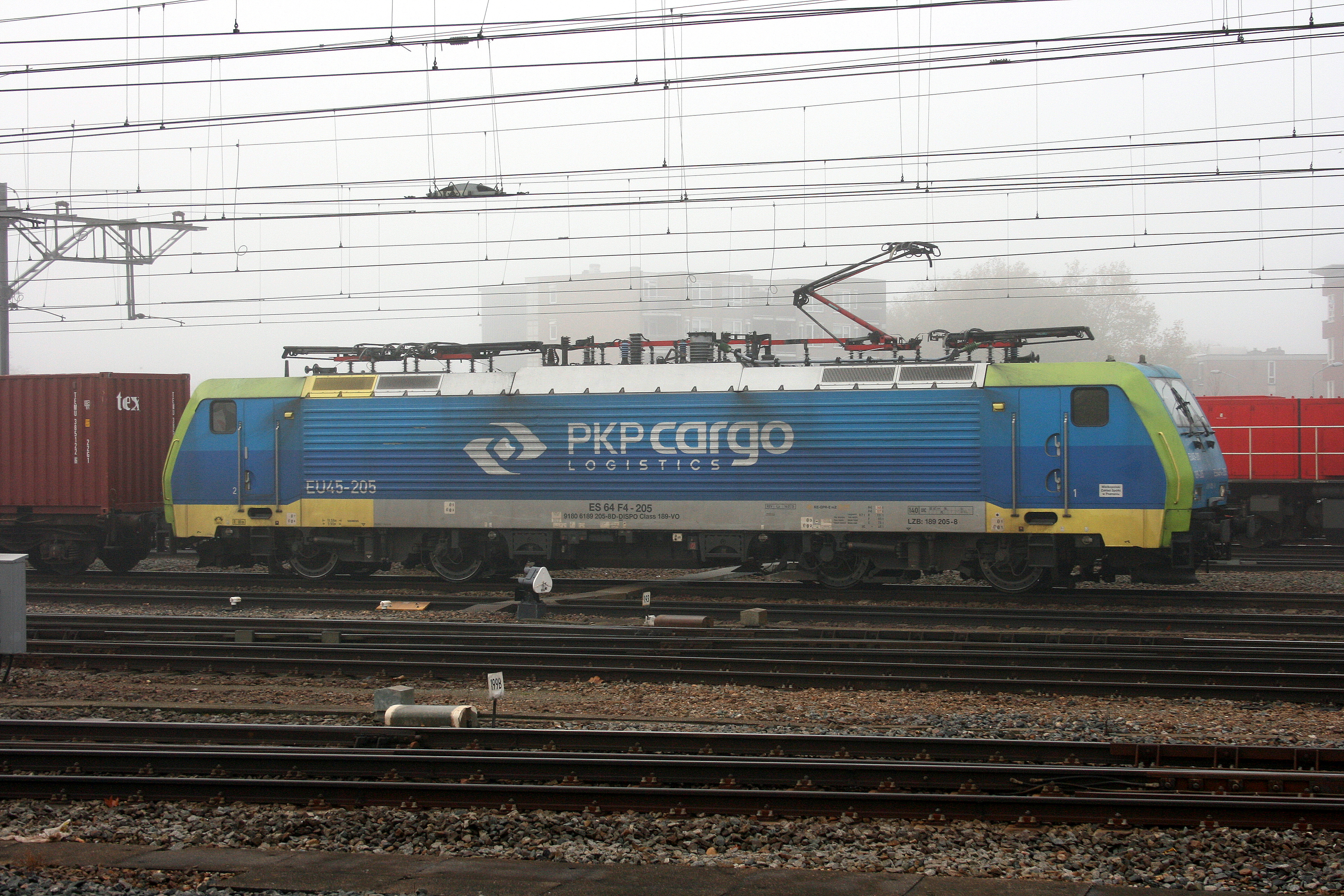 PKP Cargo Logistics EU45-205 in Venlo